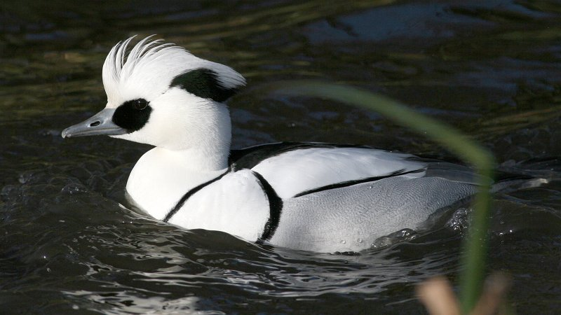 Smew (Mergellus albellus) This image was created by Ken Billington. If you are interested in a high resolution copy of this image, please contact the author Ken Billington in order to negotiate conditions of use. Do not copy this image illegally by ignoring the terms of the license below, as it is not in the public domain. If you would like special permission to use, license, or purchase the image please contact me to negotiate terms. More free images can be found on Ken Billington's Bird & Wildlife Photography.